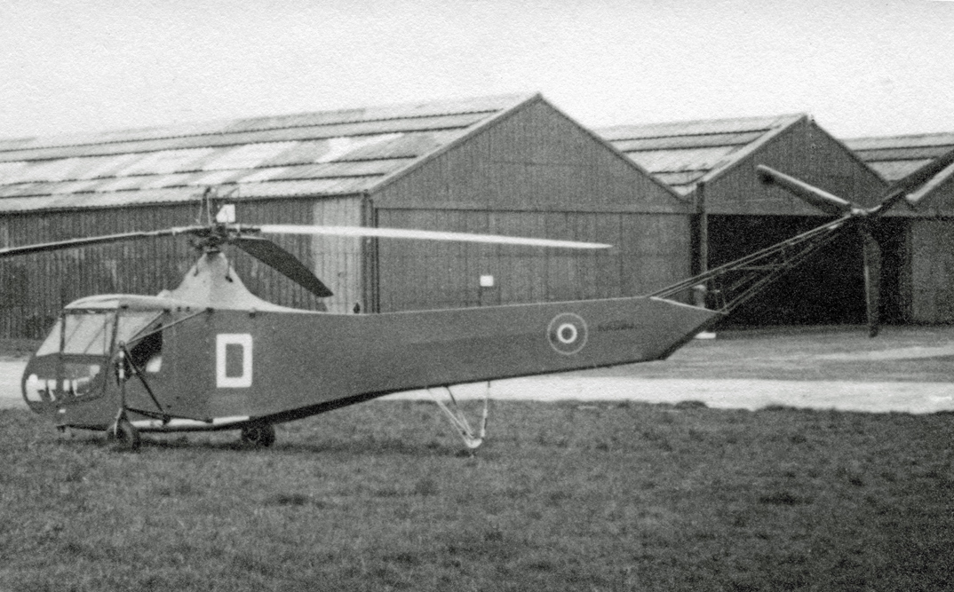 Sikorsky R-4B Hoverfly I of the Royal Air Force at Manchester (Ringway) Airport